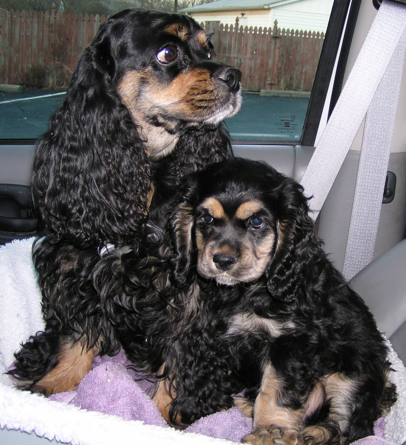 Shows an American Cocker Spaniel and her pup, both with black and tan coloring.